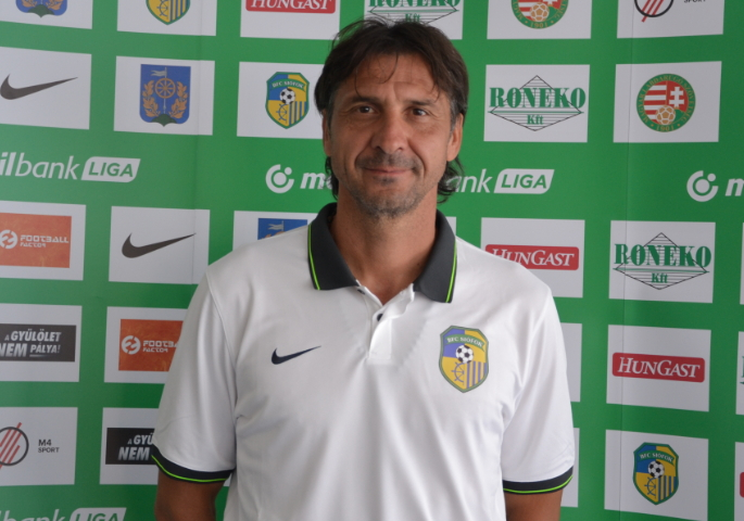 Goran Kopunovic Serbian-Hungarian football player